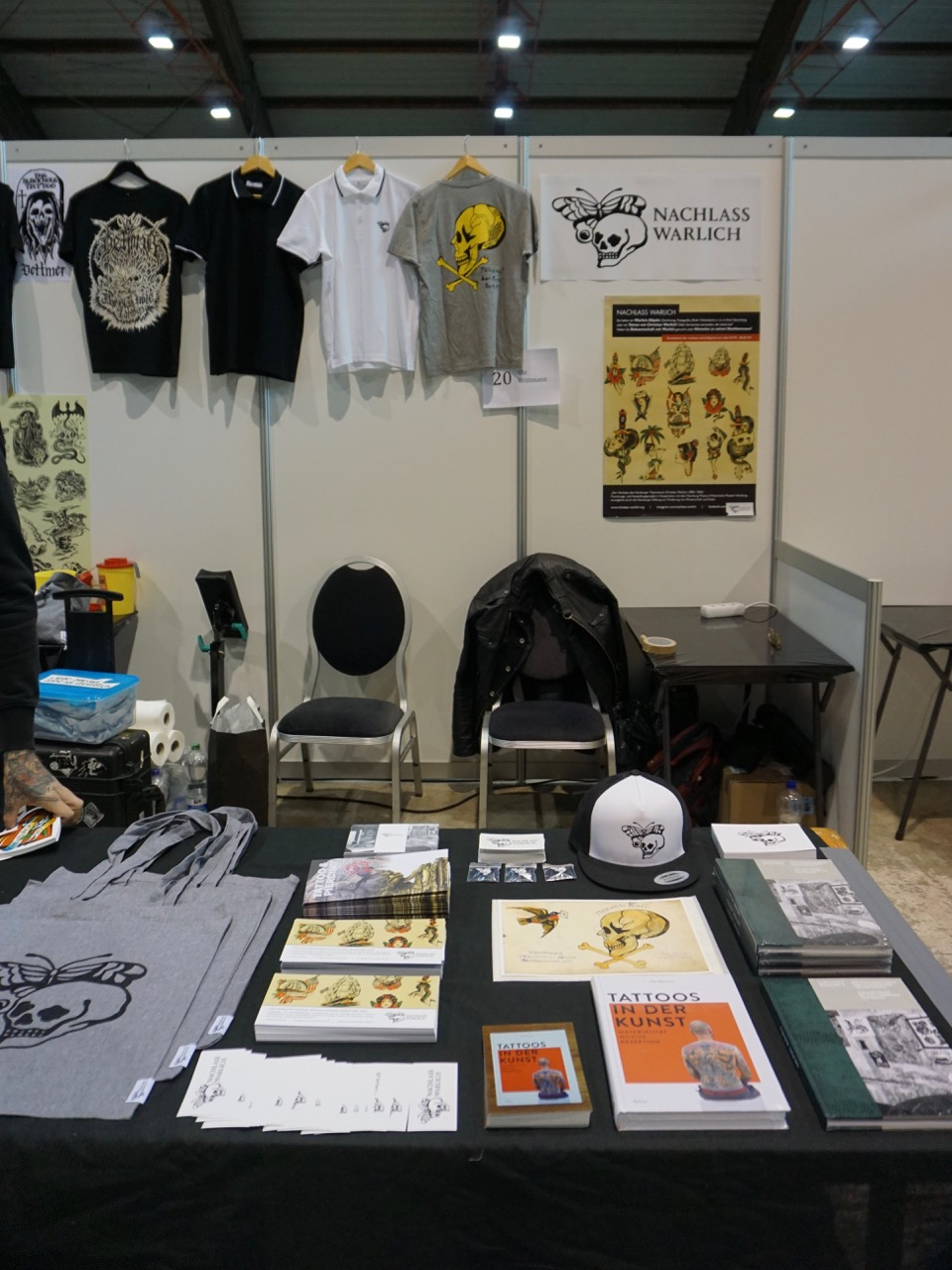 Booth of research project Nachlass Warlich at Kaiserstadt Tattoo Expo Aachen, 2017